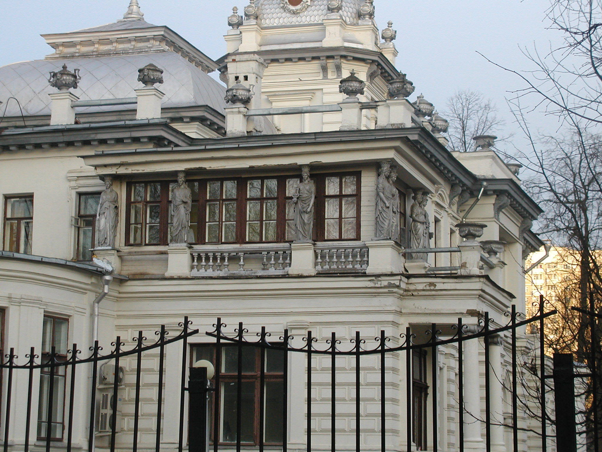 Khovrino manor in Grachyovskiy Park, district Khovrino, Moscow, Russia